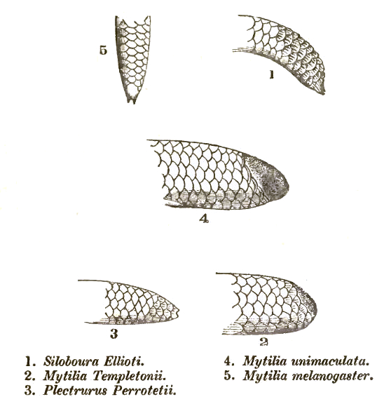 Tails of Uropeltid snakes Siloboura ellioti = Uropeltis ellioti Mytilia templetonii = Rhinophis blythii Plectrurus perrotetii Mytilia unimaculata = Rhinophis oxyrhynchus Mytilia melanogaster = Uropeltis melanogaster